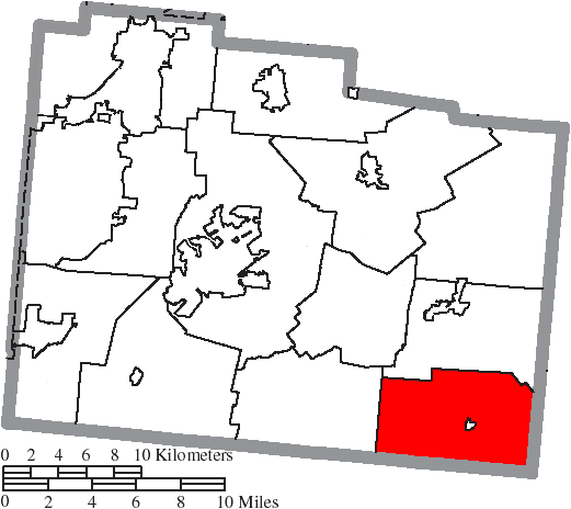 Map of the municipal and township boundaries of Greene County, Ohio, United States, as of the 2000 census, with the location of Jefferson Township highlighted. Township borders are shown only in unincorporated areas in order to differentiate incorporated and unincorporated areas more clearly.